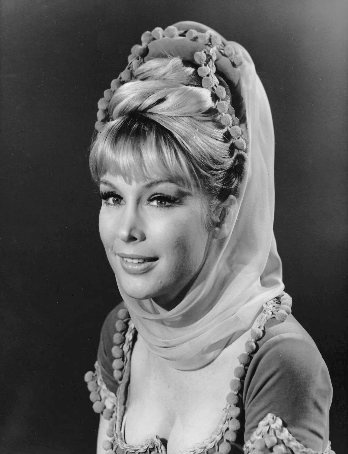 Publicity photo of Barbara Eden from I Dream of Jeannie.